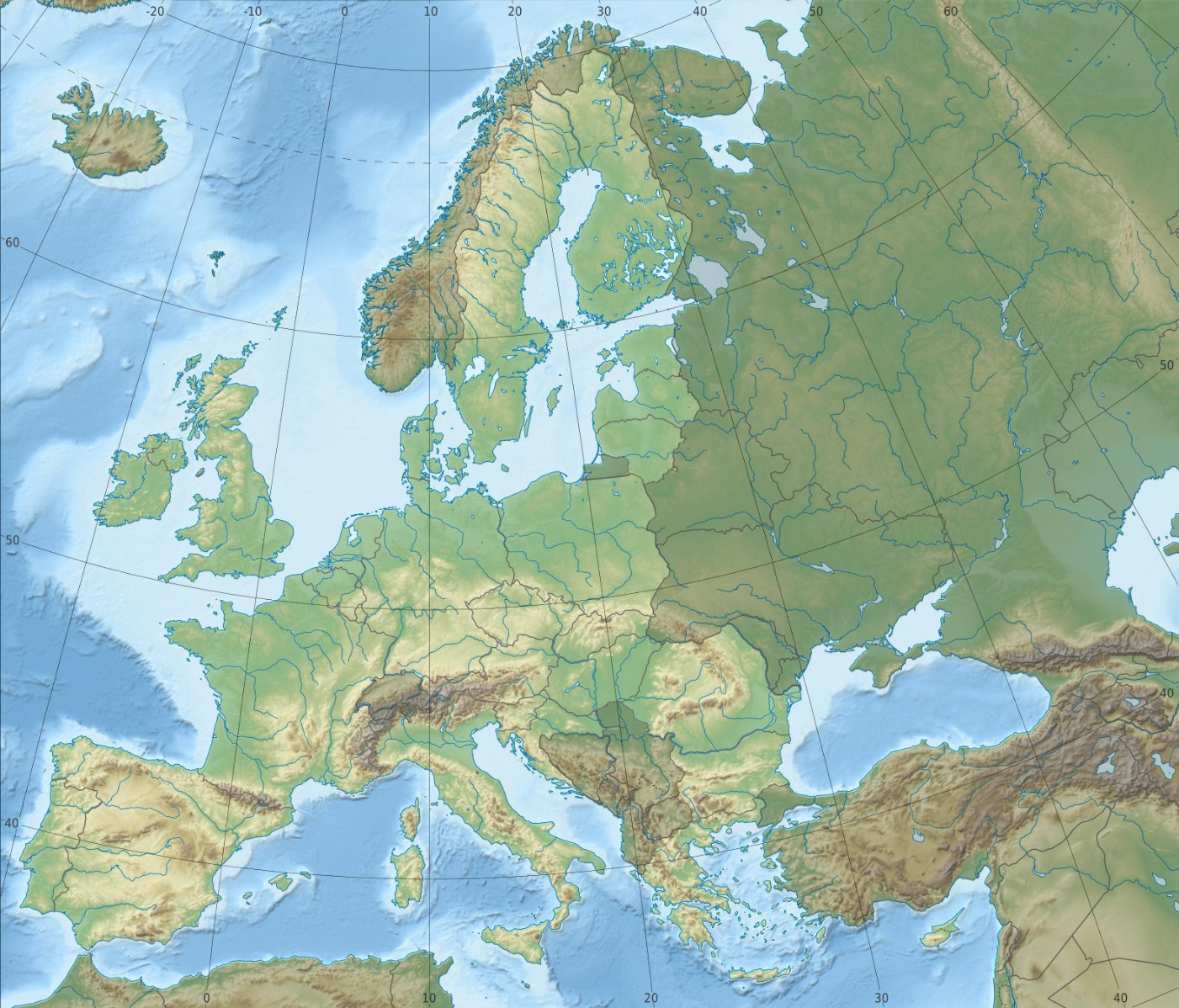 European Union relief laea location map